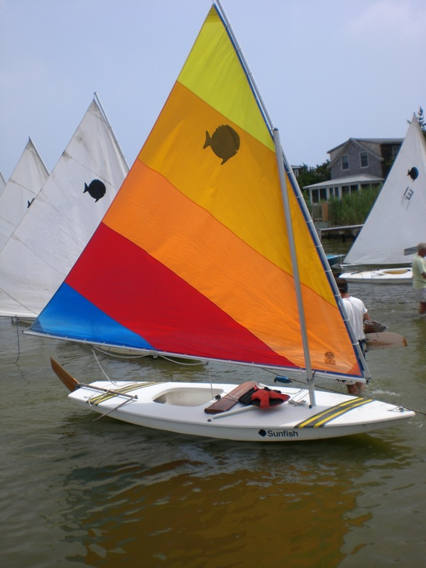 CIMG0307.JPG